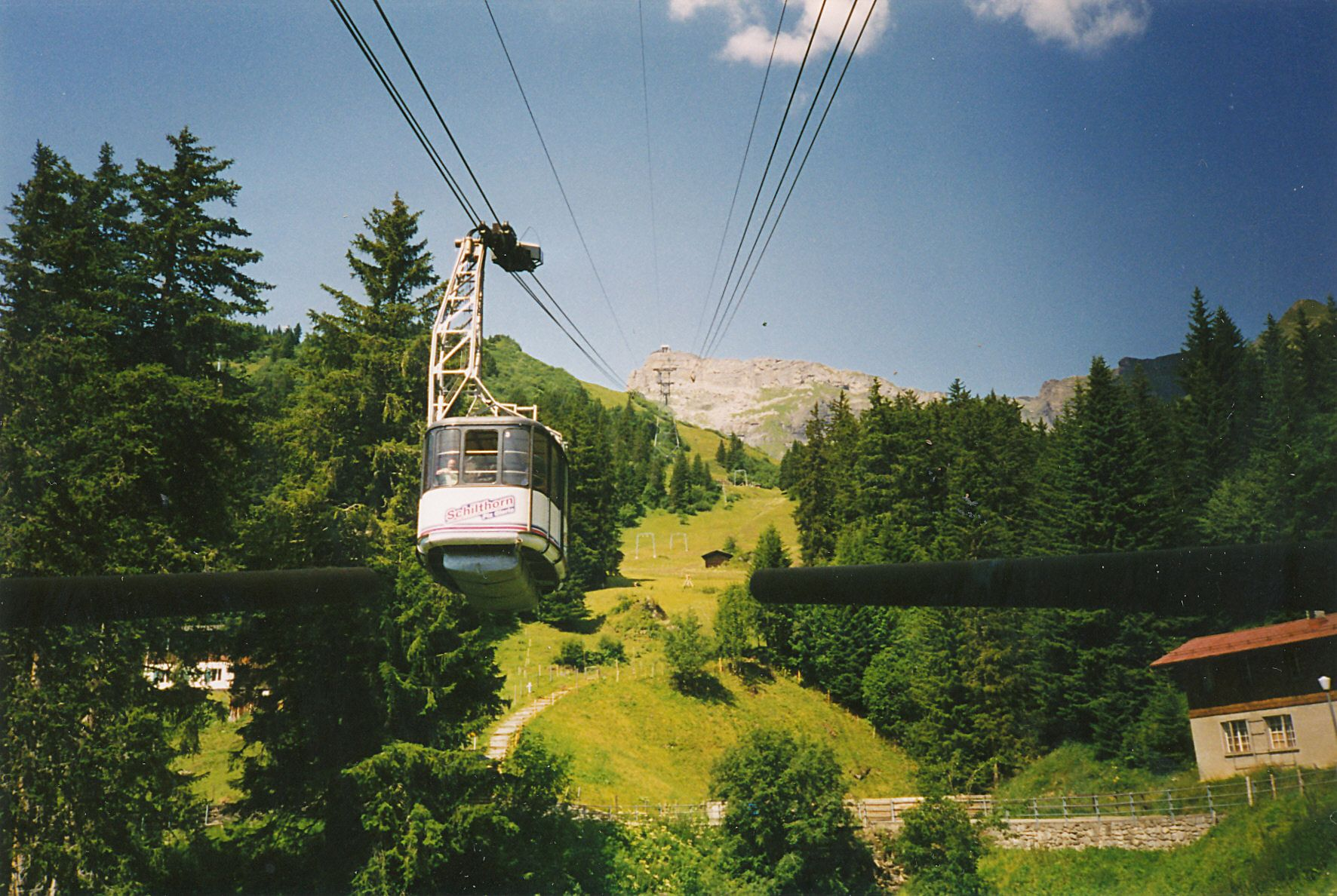 Gondola on its way from Mürren to Birg on the Schilthornbahn. July 1998.